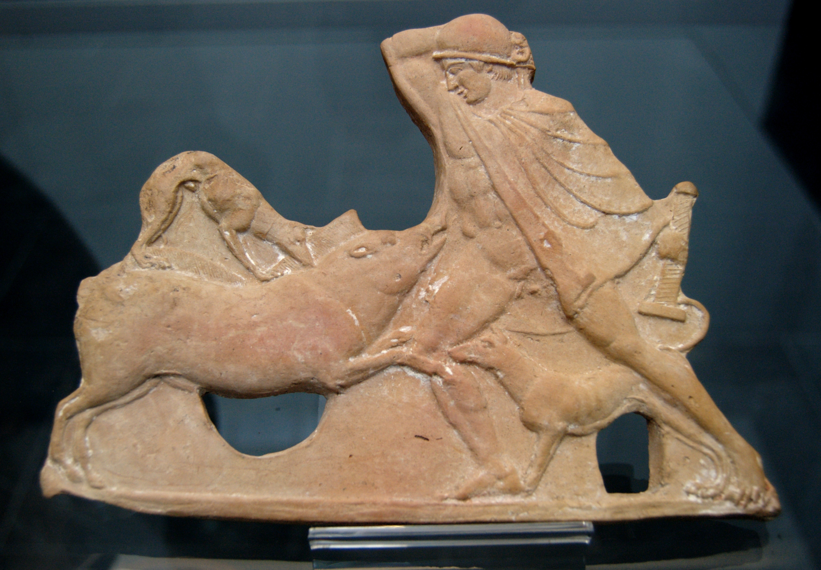 Theseus and the Crommyonian Sow. Terracotta from the island of Melos, ca. 460 BC.